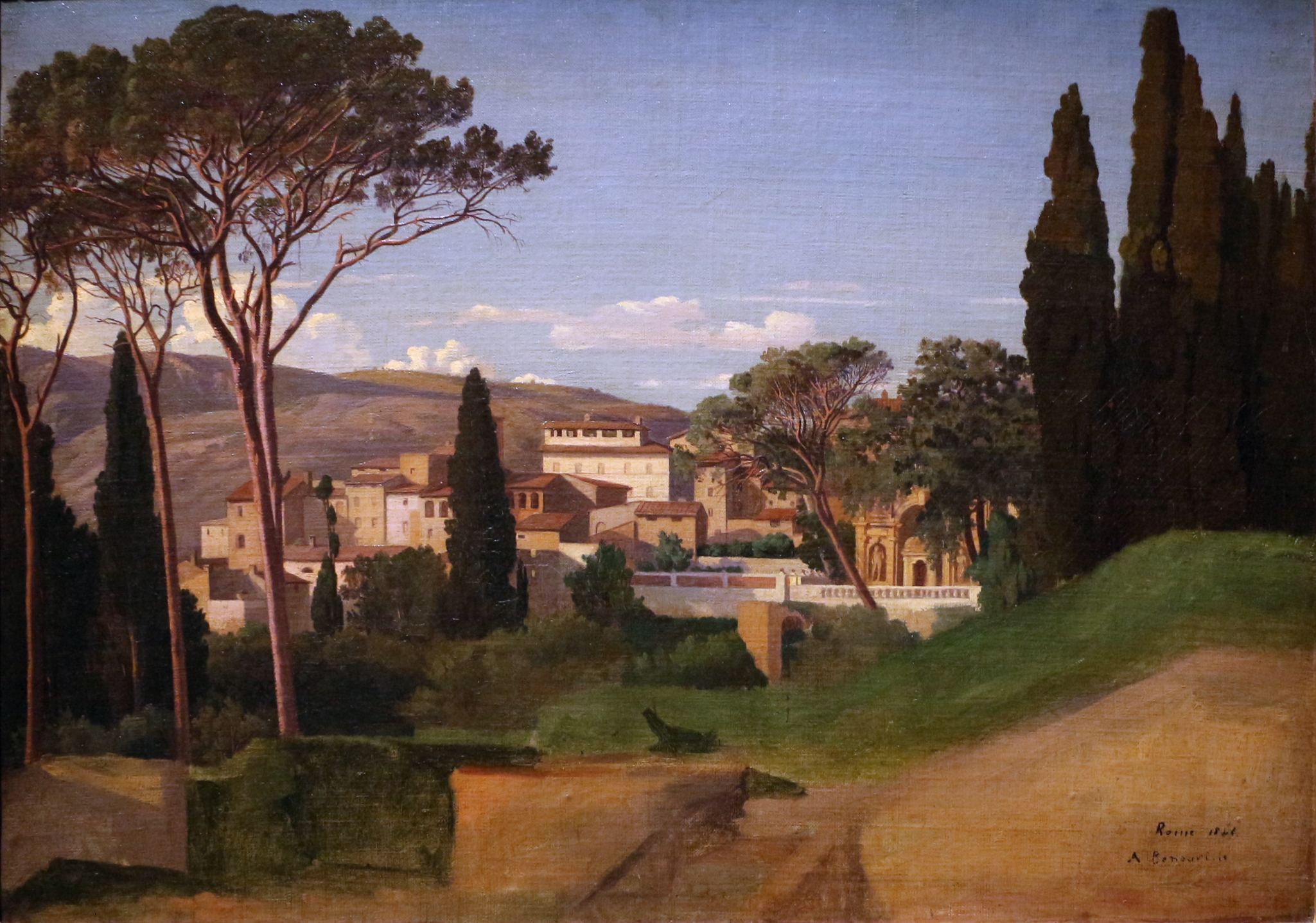 Paintings in Musée d'Orsay